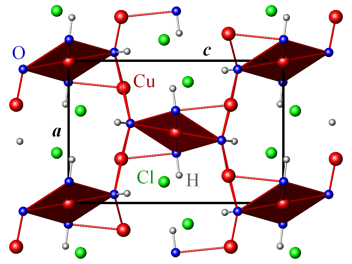 Crystal structure of atacamite, Cu2Cl(OH)3, Pnma. Red: copper, green: chlorine, blue: oxygen, gray: hydrogen.